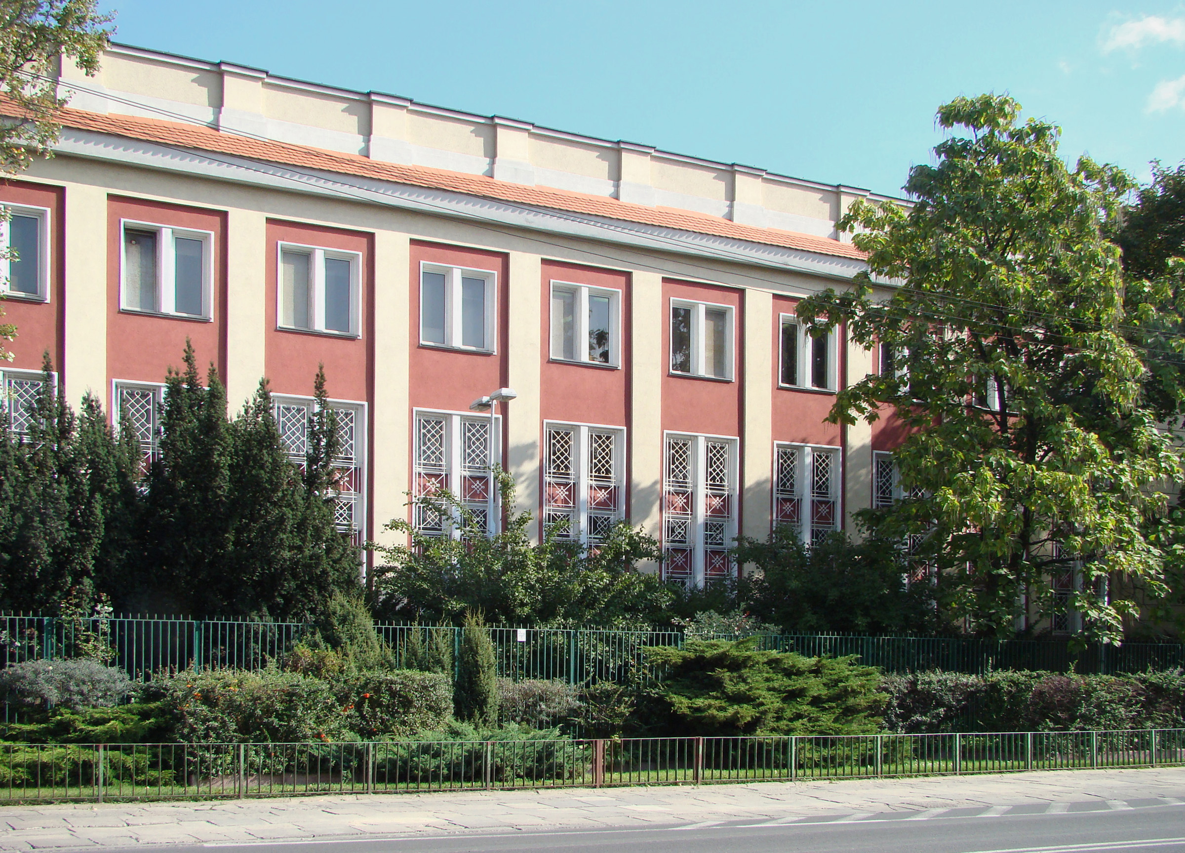 State Mint in Warsaw - old building, Żelazna St., destroyed 2014